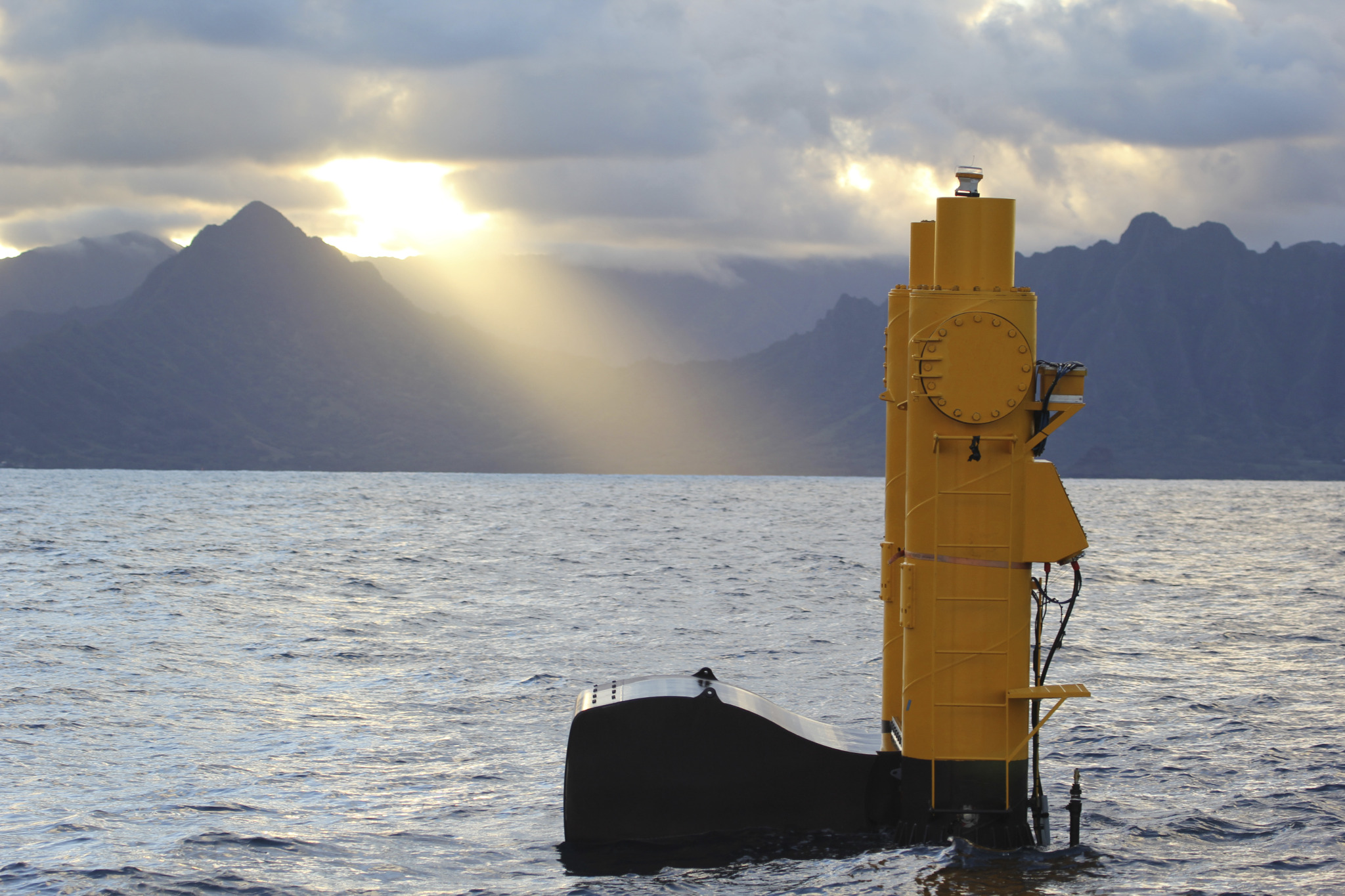 Wave energy prototype testing